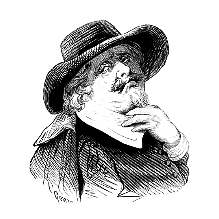 The most famous Italian historical romance,and the masterpiece of Alessandro Manzoni.